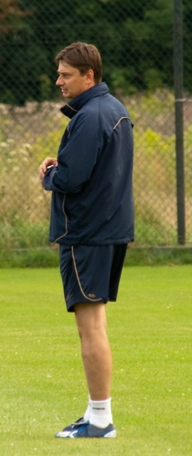 Maciej Skorża